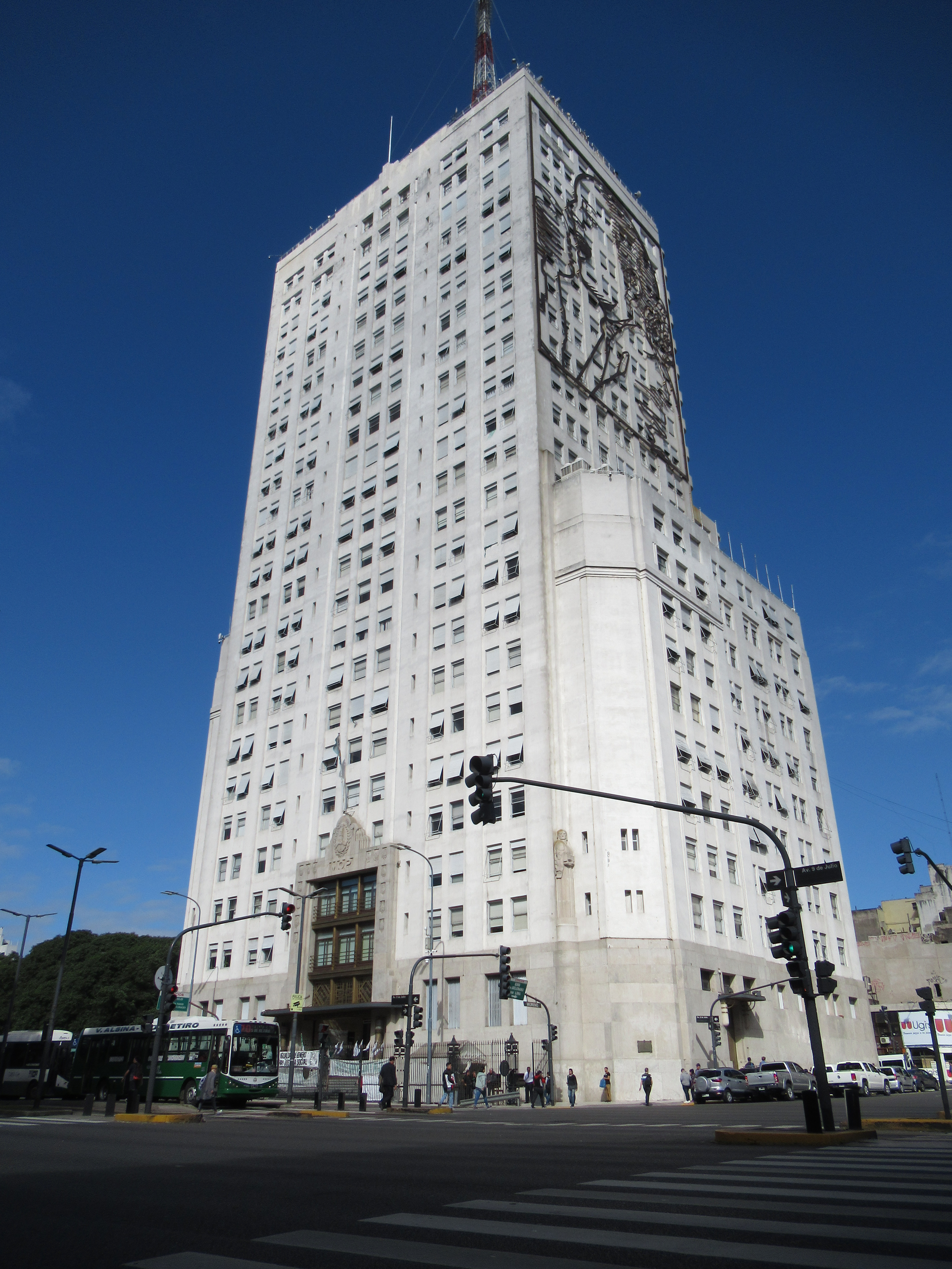 Ministerio de Obras Públicas